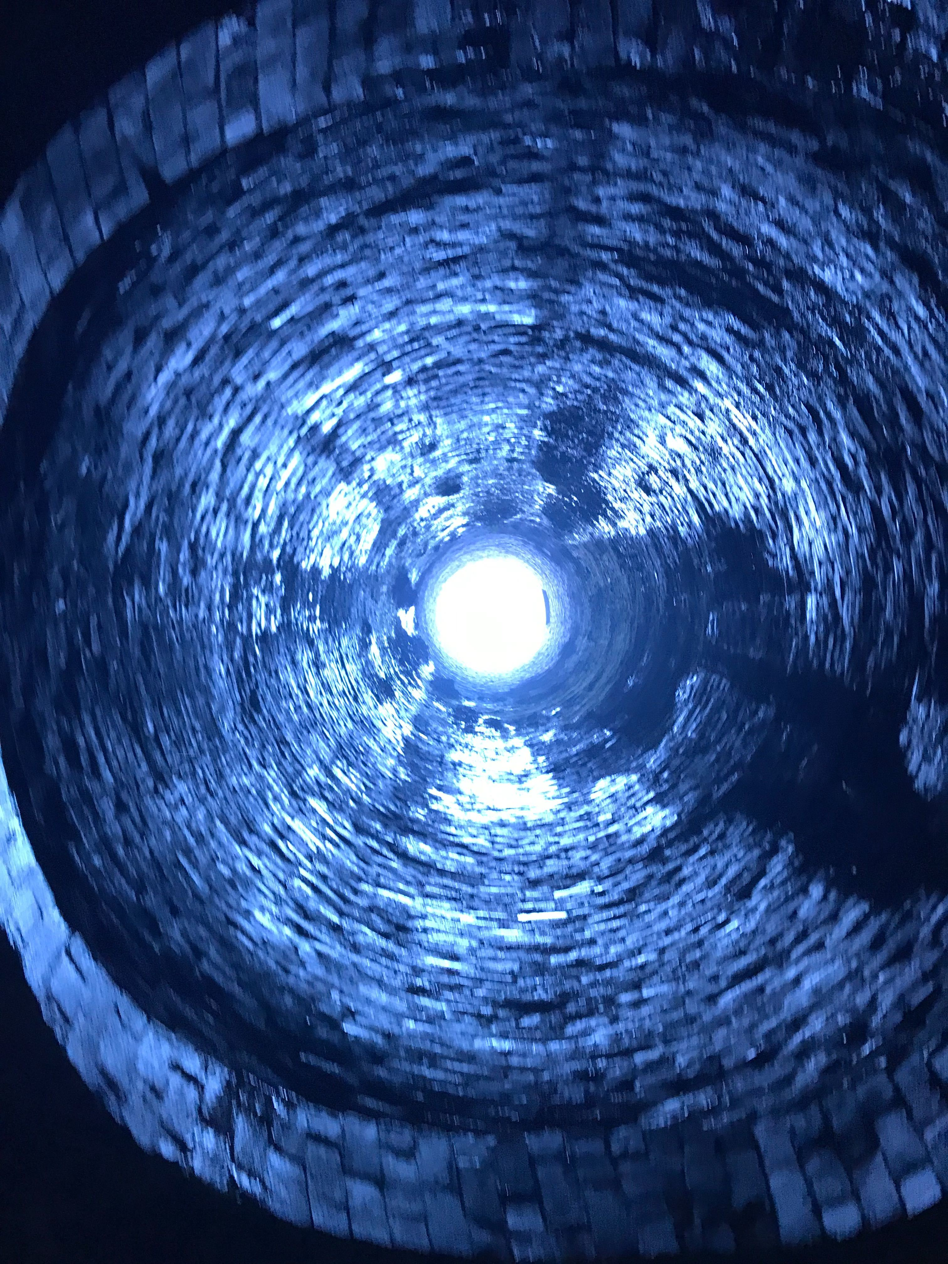 Picture of the 2nd air shaft, taken from inside the tunnel